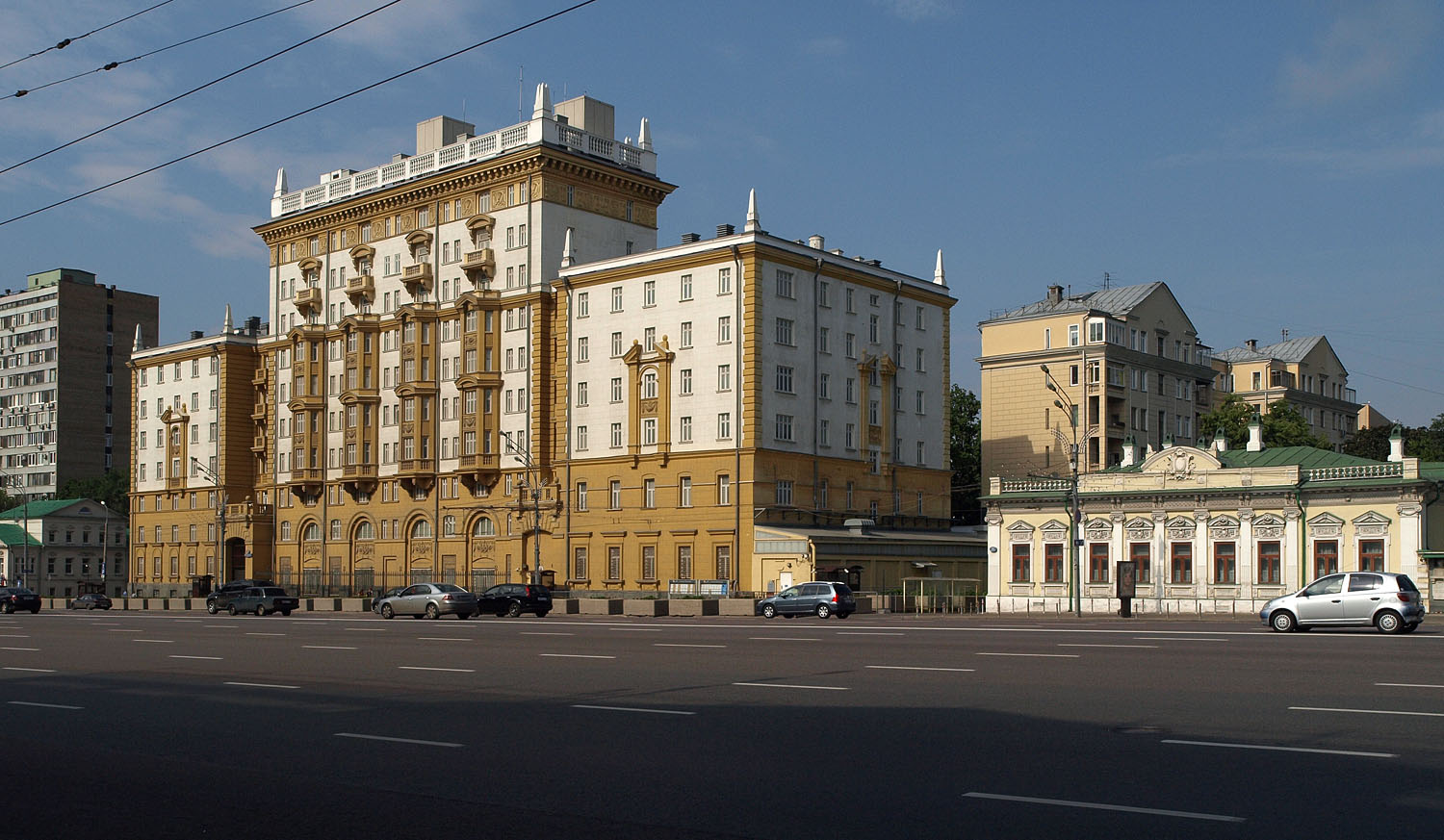 Embassy of the United States in Moscow (Novinsky Boulevard - the 'old' building). Fyodor Chalyapin house at right.